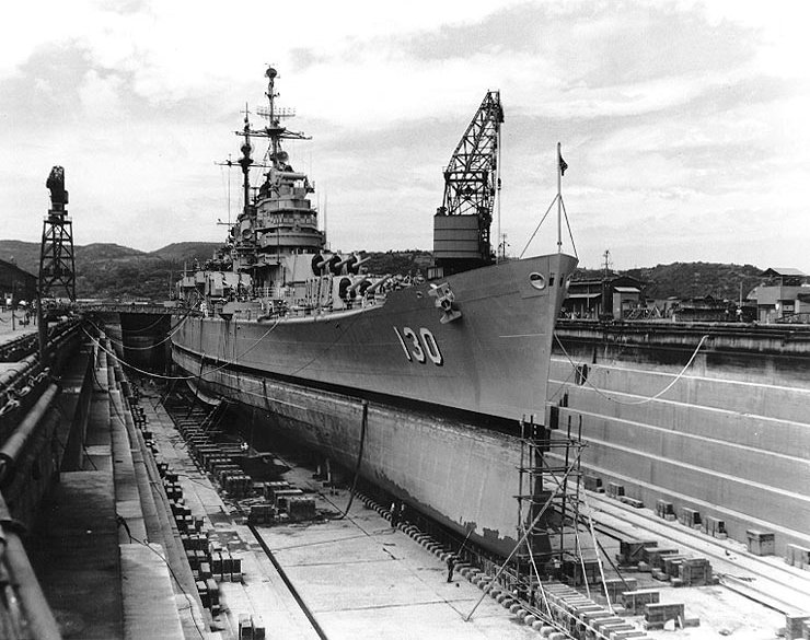 Photo #: 80-G-644556 USS Bremerton (CA-130) In Drydock Number 5 at Yokosuka Naval Base, Japan, in July 1954. Note her side armor, and men painting her hull.